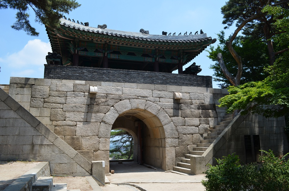 Sukjeongmun Gate, also known as North Gate or Bukdaemun, Seoul, South Korea. Photographed June 17, 2012.